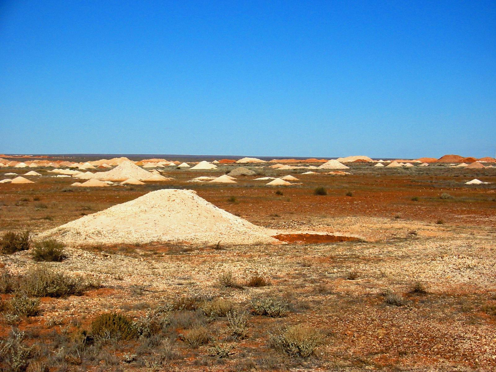 Mining Shafts in Coober Pedy (»Opal Capital of the World«), Australia